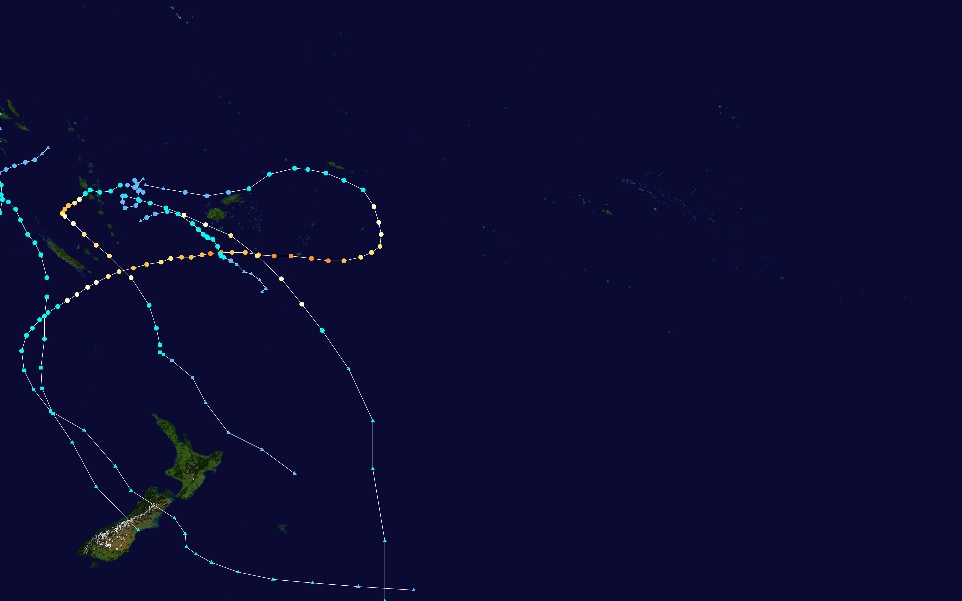 This map shows the tracks of all tropical cyclones in the 2017-18 South Pacific cyclone season. The points show the location of each storm at 6-hour intervals. The colour represents the storm's maximum sustained wind speeds as classified in the Saffir-Simpson Hurricane Scale (see below), and the shape of the data points represent the type of the storm. Saffir–Simpson scale Tropical depression≤38 mph≤62 km/h Category 3111–129 mph178–208 km/h Tropical storm39–73 mph63–118 km/h Category 4130–156 mph209–251 km/h Category 174–95 mph119–153 km/h Category 5≥157 mph≥252 km/h Category 296–110 mph154–177 km/h Unknown Storm type Tropical cyclone Subtropical cyclone Extratropical cyclone / Remnant low / Tropical disturbance / Monsoon depression